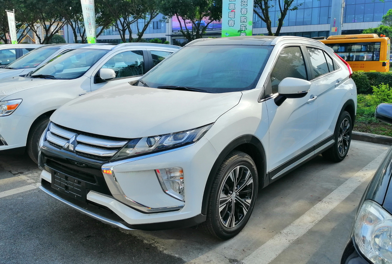 Mitsubishi Eclipse Cross photographed in Chongqing, China.